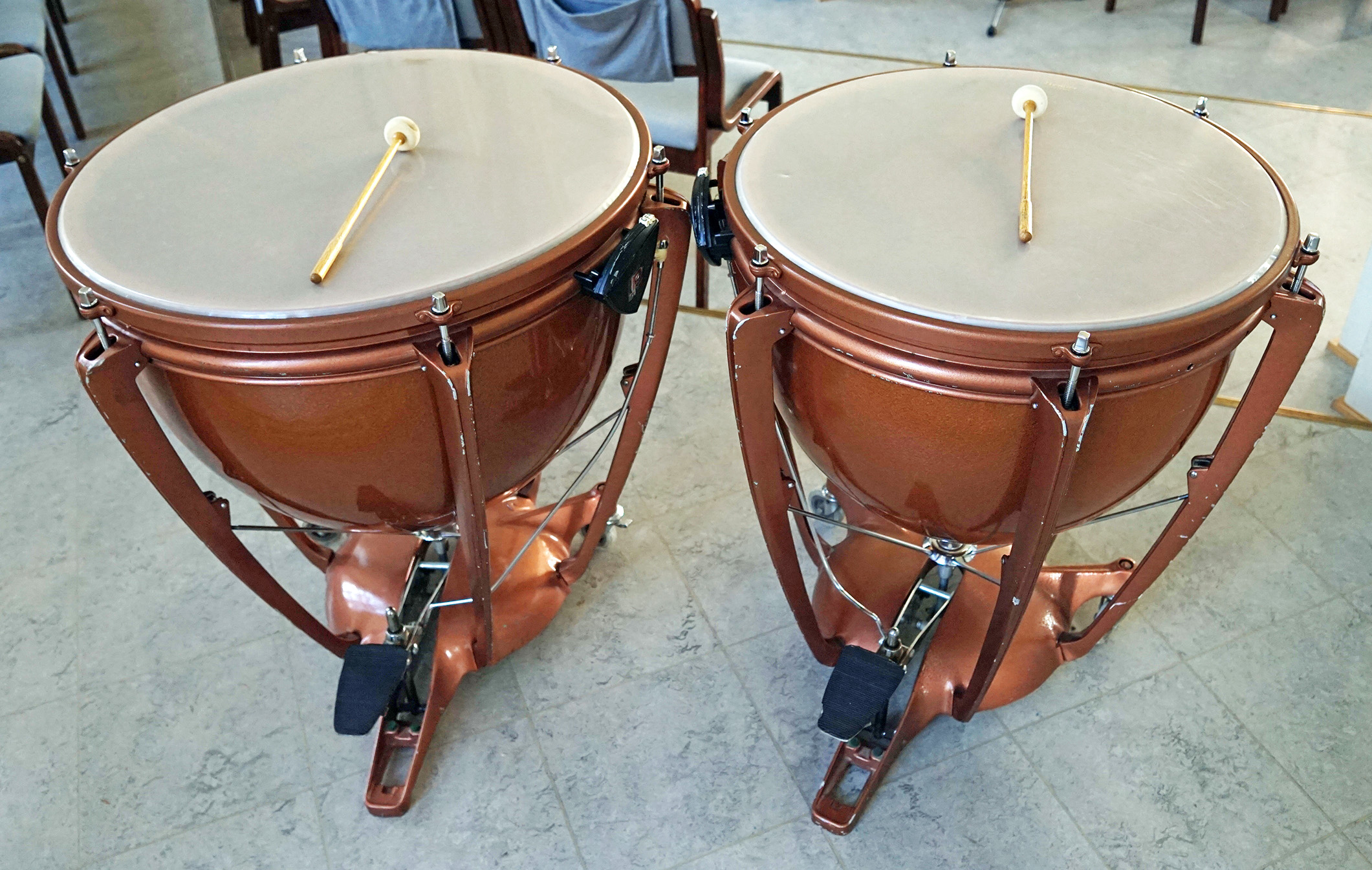 Timpani in Keuruu Church in Keuruu, Finland.